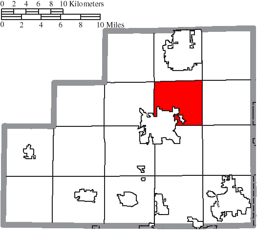 Map of the municipal and township boundaries of Medina County, Ohio, United States, as of the 2000 census, with the location of Medina Township highlighted. Township borders are shown only in unincorporated areas in order to differentiate incorporated and unincorporated areas more clearly.